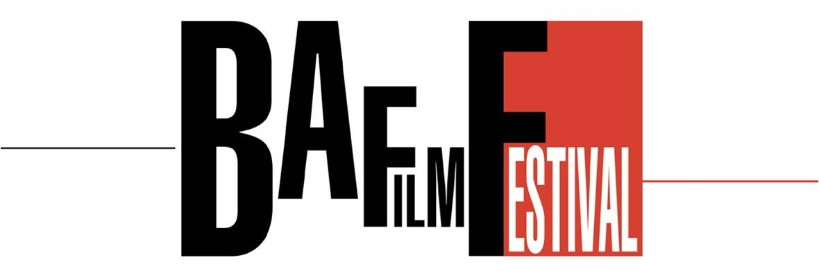 BA Film Festival